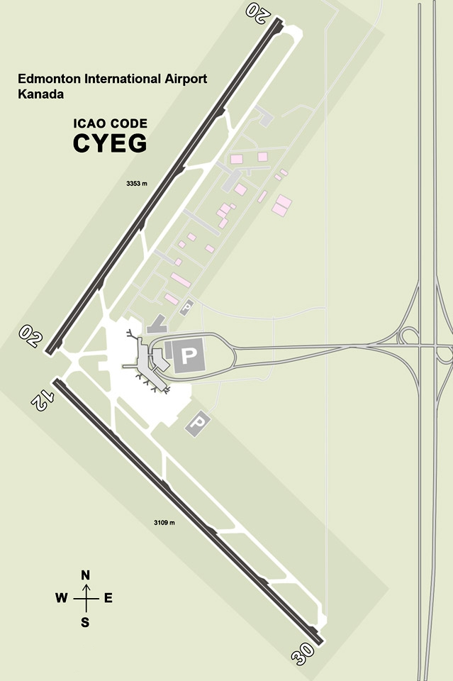 Map of Edmonton International Airport, Canada, in German